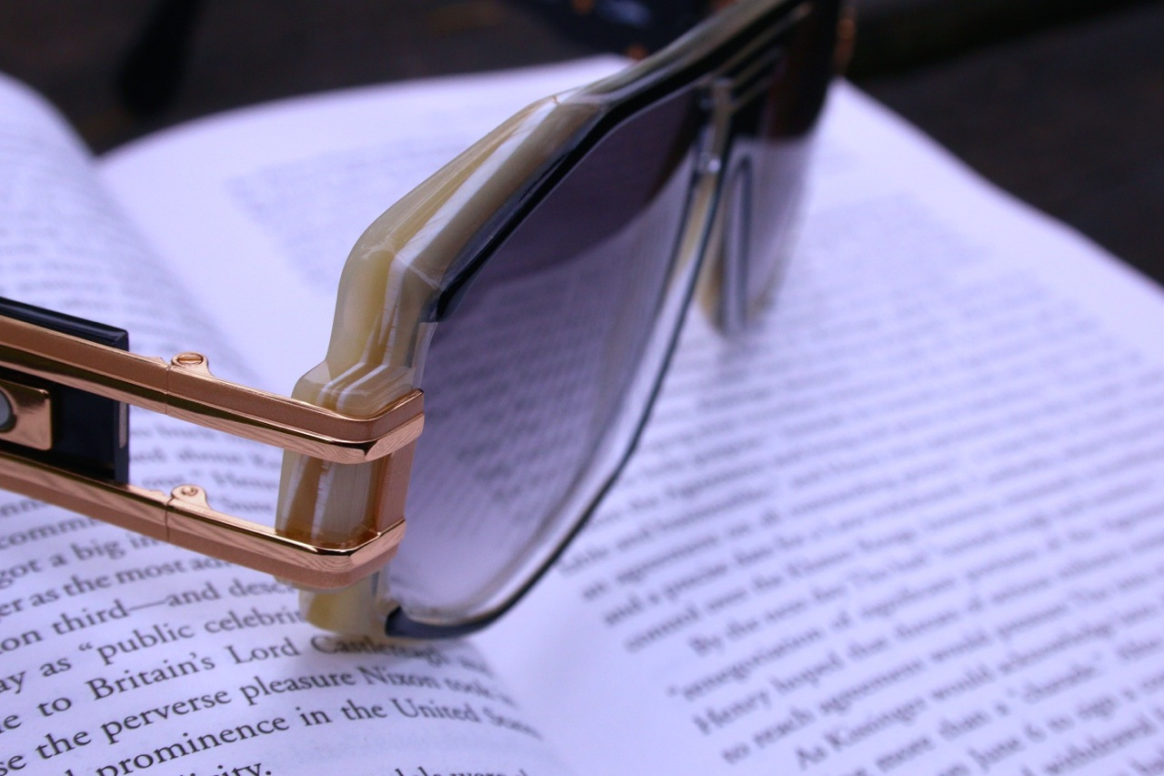 Cazal Legends 163 Alternate View